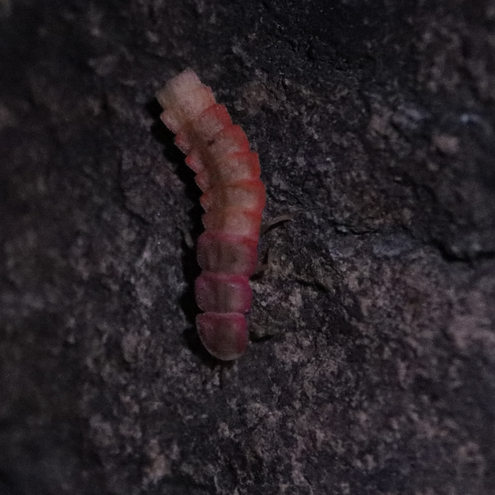 close up of Ellychnia California larvae, not glowing